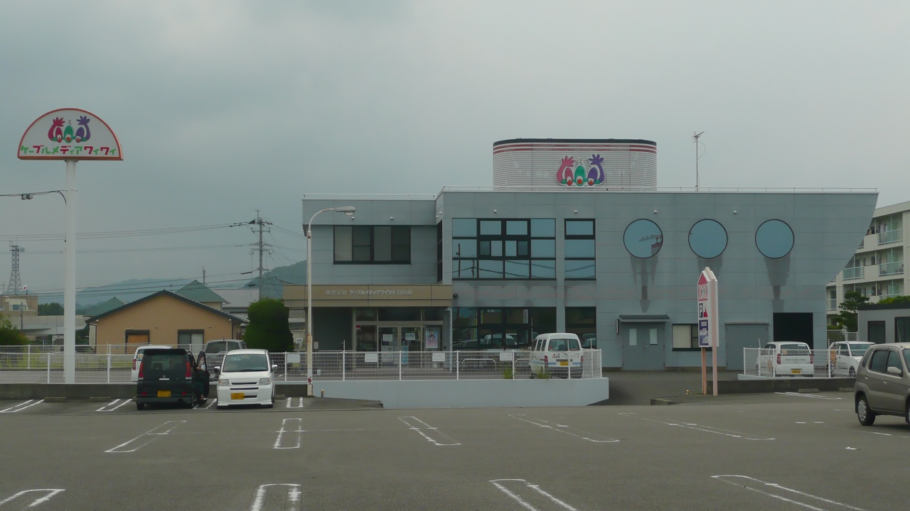 Cable Media Waiwai (CATV) - Hyuga Station (Miyazaki Prefecture, Japan)